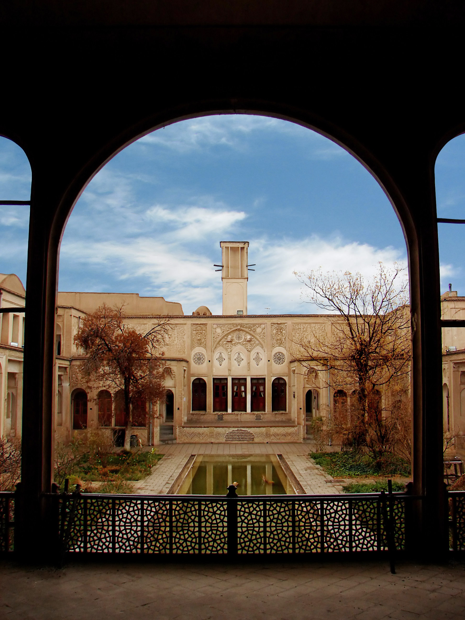 Historical house in Kashan, named Borudjerdis' House.